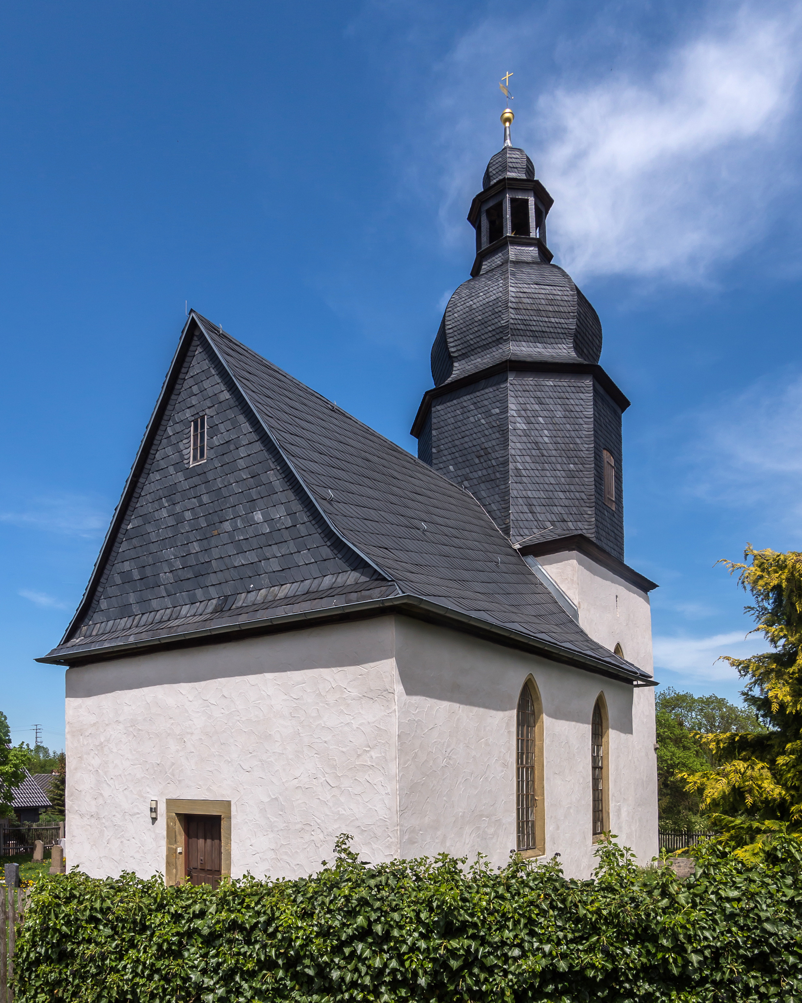 Eyba 1 Kirche mit Ausstattung